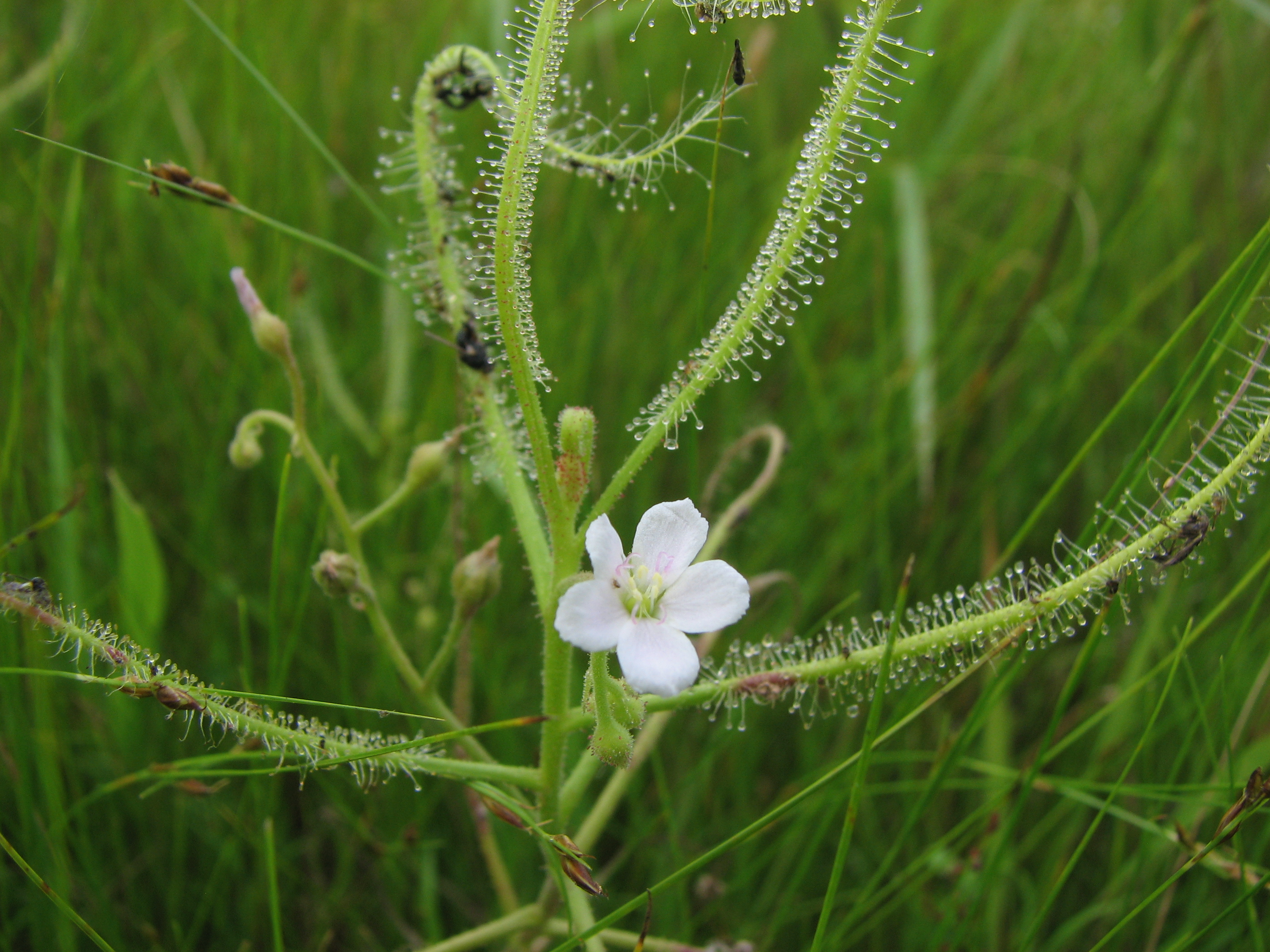 Drosera indica at Naruto-Togane carnivorous plant colony.